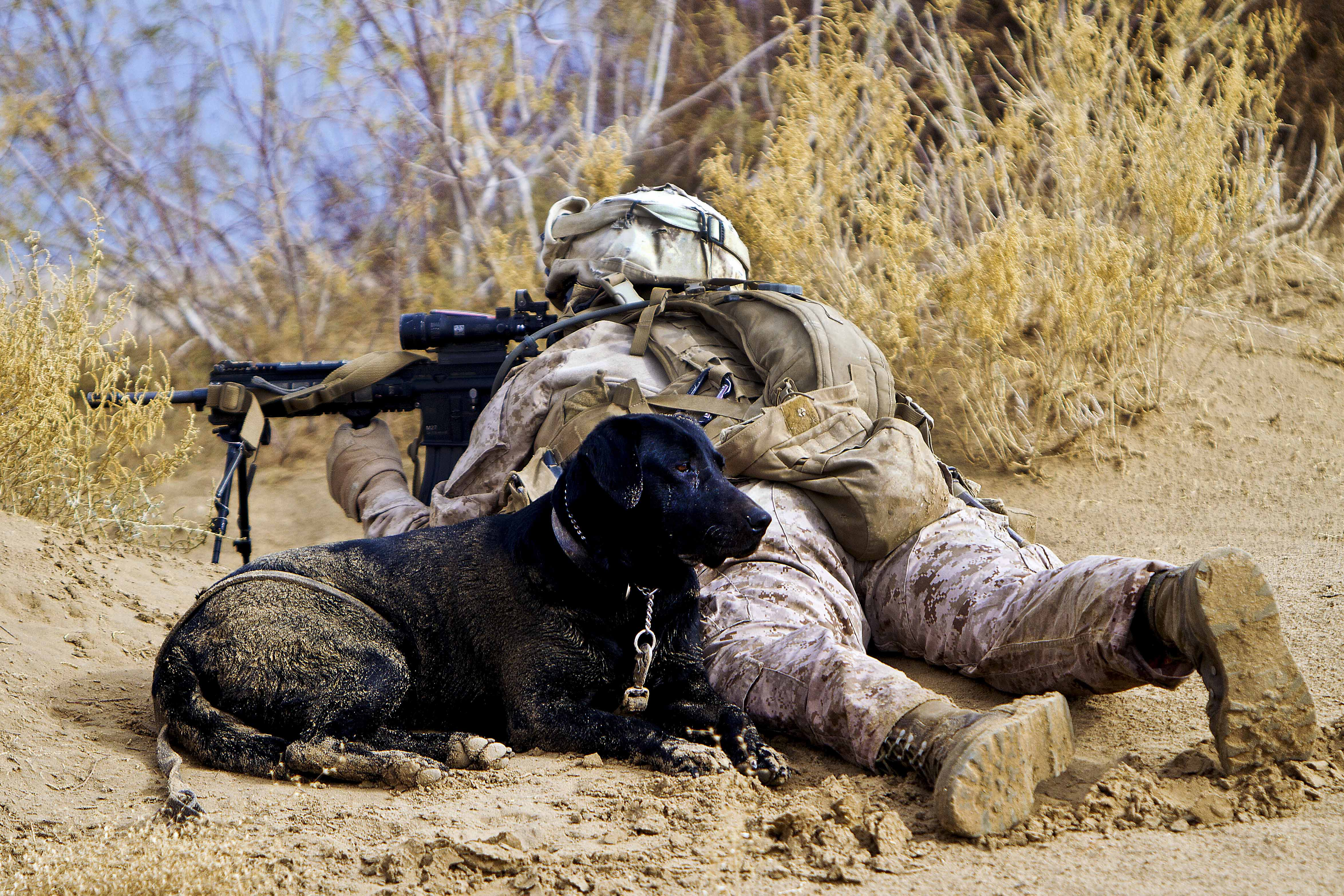 U.S. Marine Corps Lance Cpl. Brandon Mann uses his automatic rifle's scope to scan the area while providing security with his military working dog, Ty, around the villages of Sre Kala and Paygel in Helmand province, Afghanistan, on Feb. 17, 2012. Mann, a military working dog handler, and Ty, an improvised explosive device detection dog, are assigned to Alpha Company, 1st Light Armored Reconnaissance Battalion.